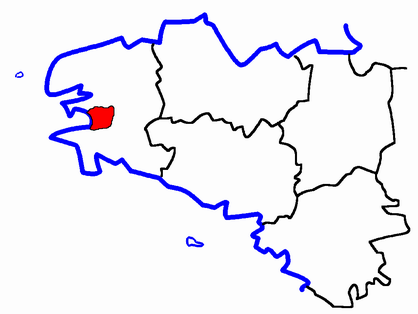 Description: Map for localisazion of cantons of Bretagne region in France Source: made by Hervé Tigier in april 2005 from another large map (published in 1990)